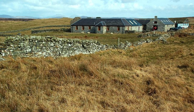 Sanaigmore Farm Buildings The converted and upgraded old farm buildings now include a tea room, open from Fridays to Mondays during the winter season.